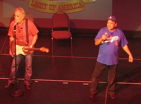 Cheech & Chong at the Tabernacle in Atlanta from the 2nd balcony - 26SEP08 performance